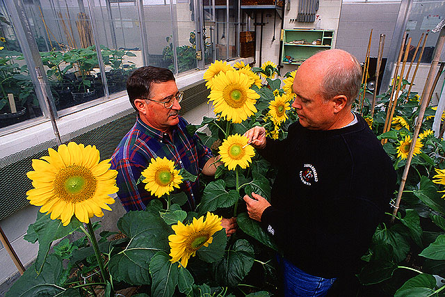 Geneticist Jerry Miller (left) and technician Dale Rehder pollinate sunflowers to develop new inbred lines that produce oil in the mid-oleic range.